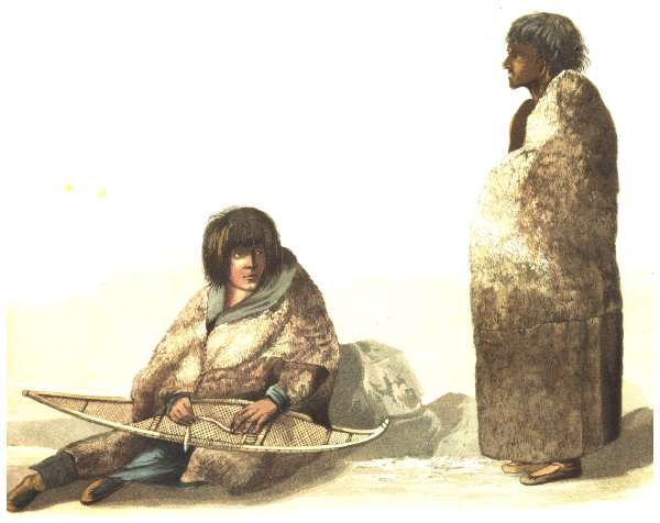 A Yellowknife hunter named Keskarrah (right) and his daughter (nicknamed "Greenstockings") drawn during John Franklin's expedition to the Coppermine River.